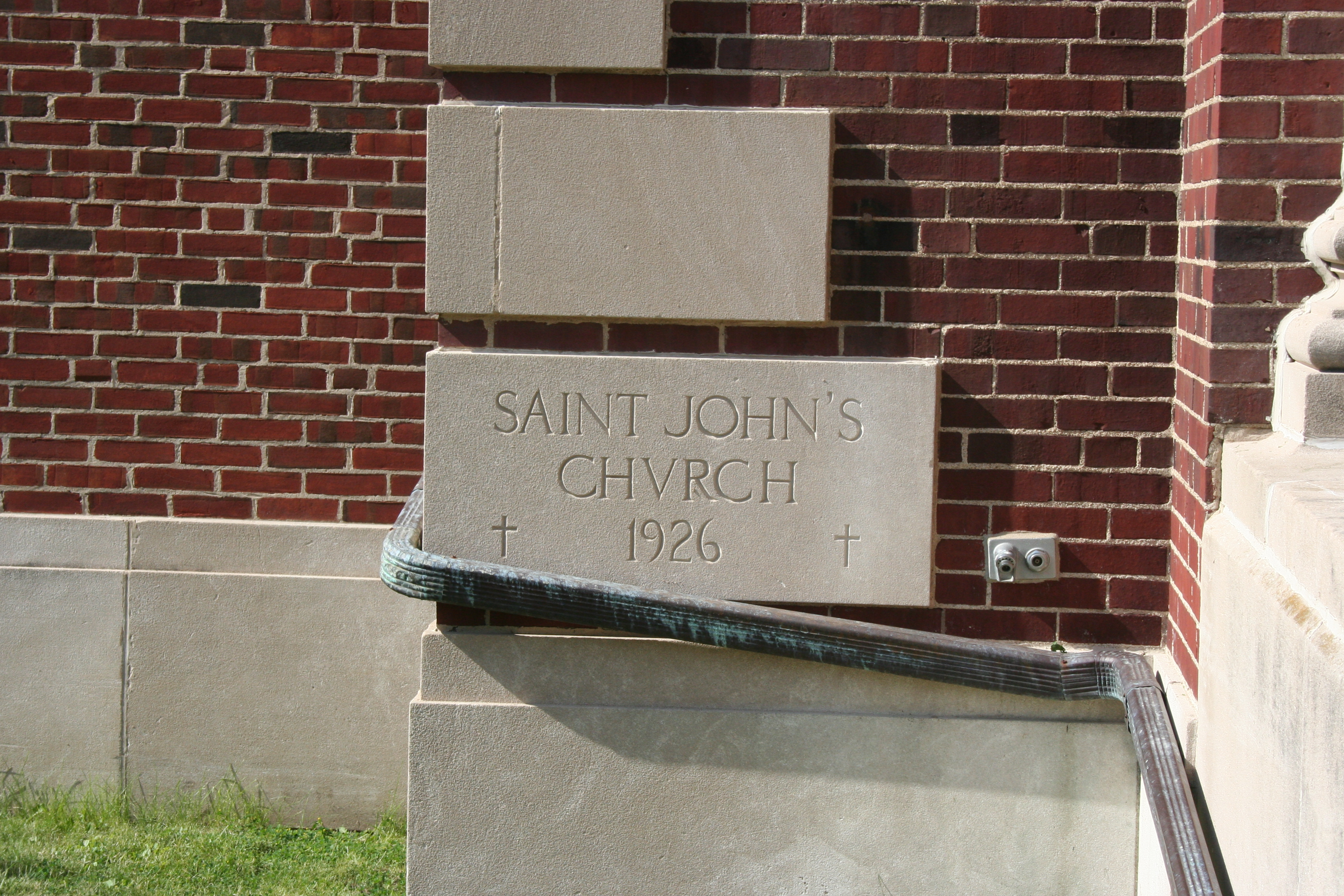 A picture of the cornerstone of St. John's Catholic Chapel at the University of Illinois.